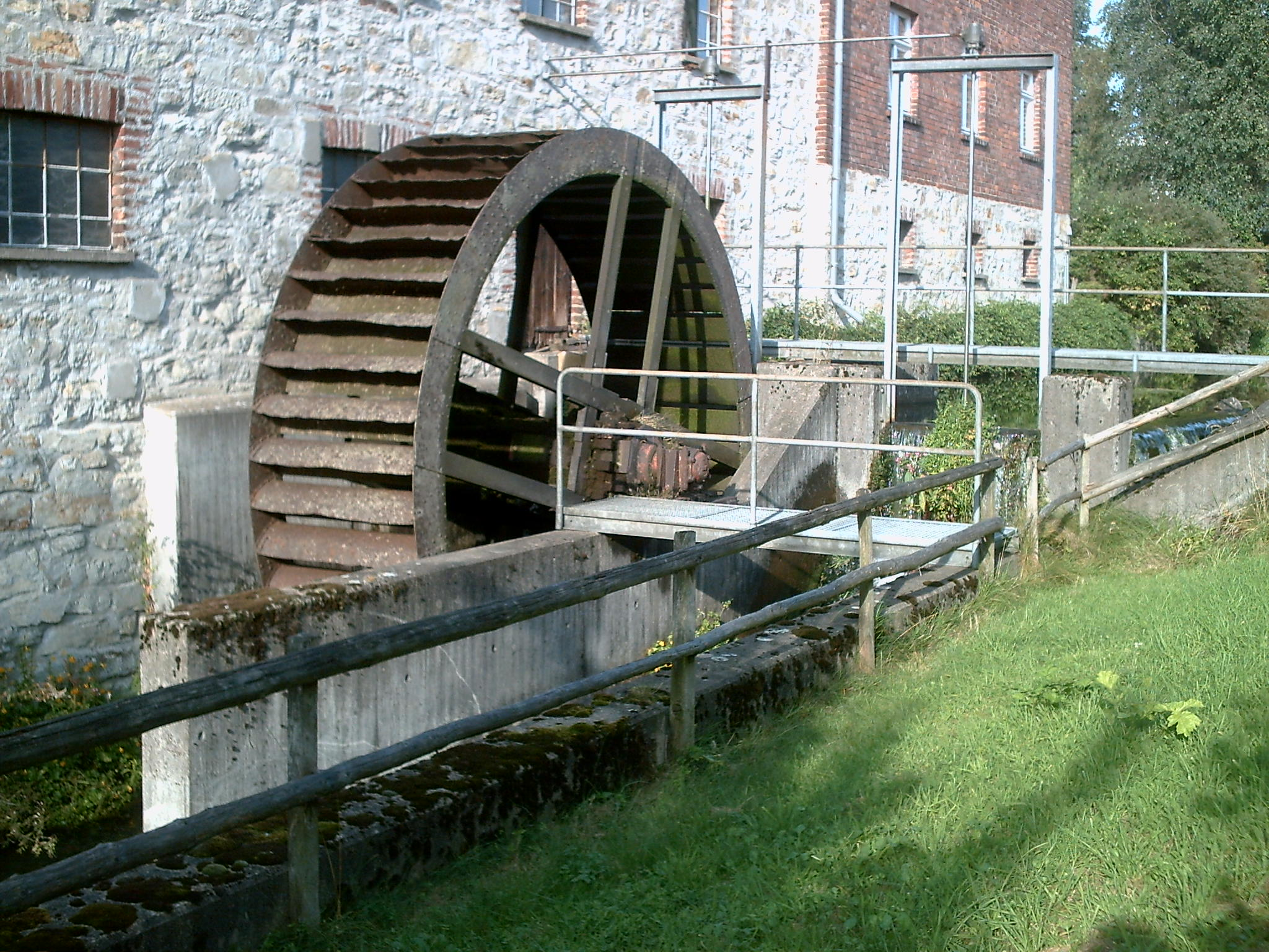 Watermill in Altenbeken, Germany